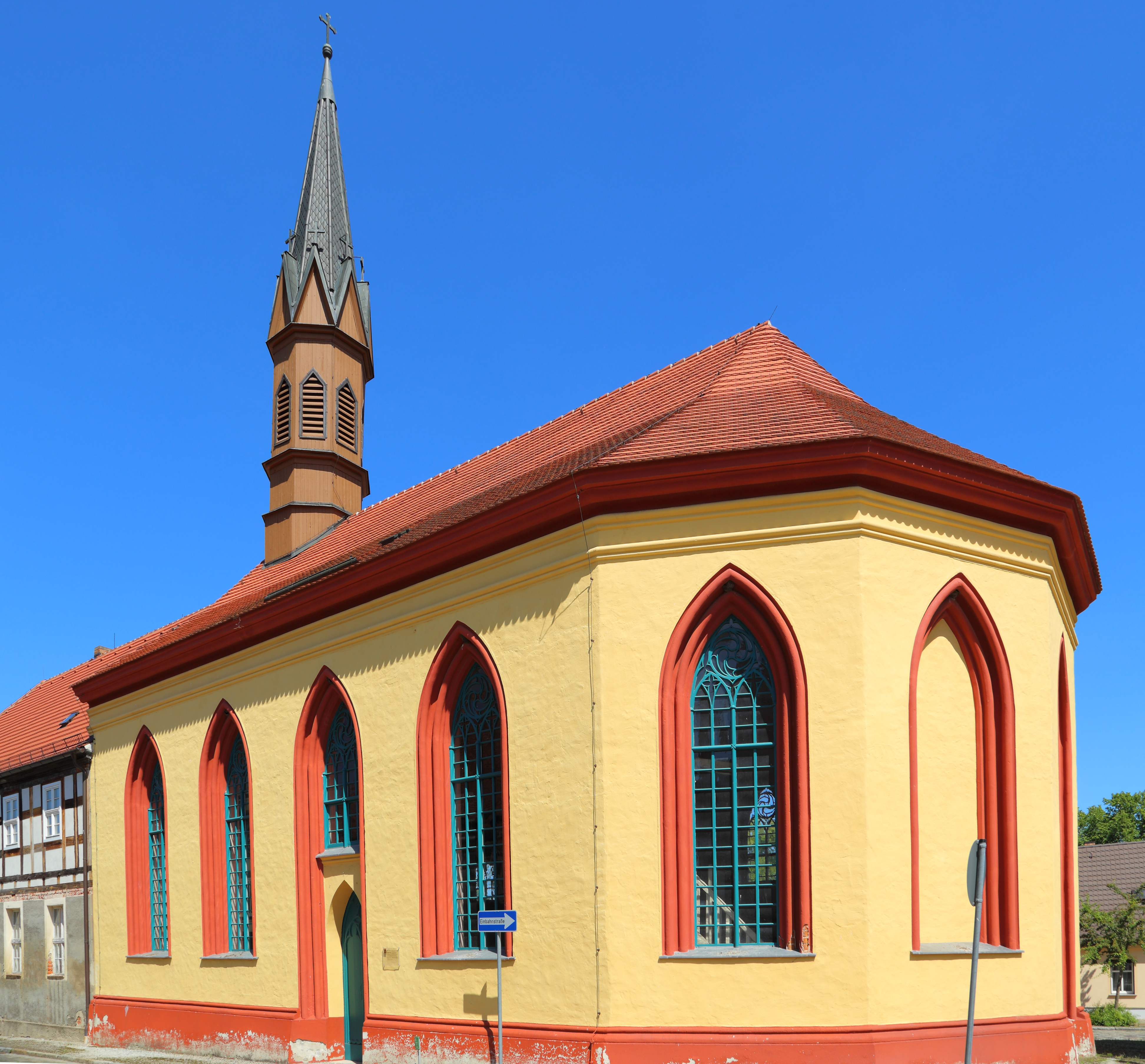 The Protestant Country Church (Landkirche) in Lieberose, Landkreis Dahme-Spreewald, Brandenburg, Germany.